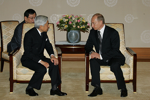 Emperor Akihito talked with President Vladimir Putin at the Imperial Palace in Chiyoda Ward, Tōkyō Metropolis, on November 22, 2005.